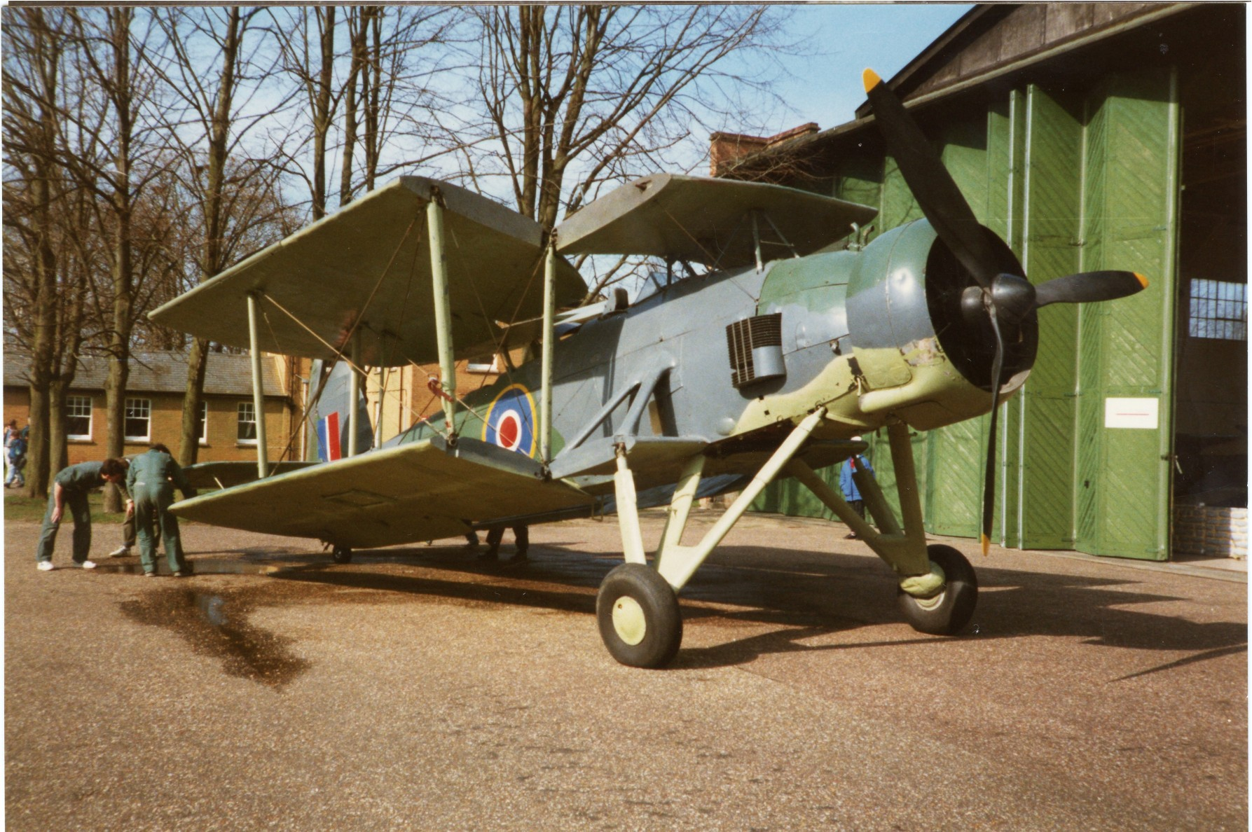 Fairey Swordfish getting an airing at Duxford.